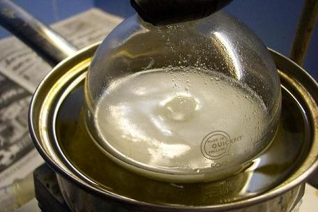 A simple oil bath consisting of a pot of oil on a heat source.